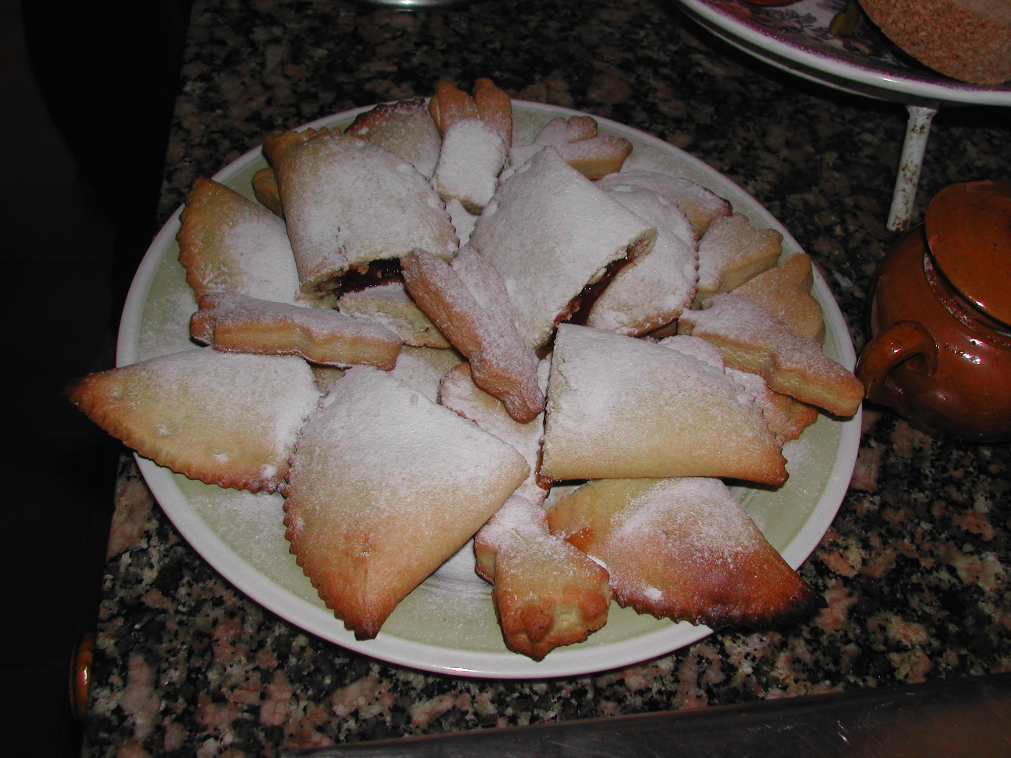 Mallorcan sweet cake made with jam made from gourds, ready to eat,Mallorca.